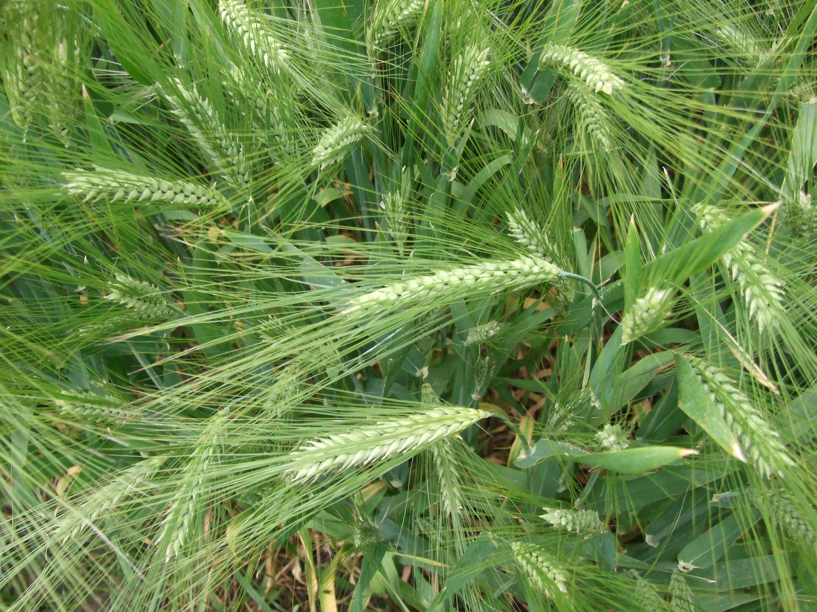 oars of winter barley before flowering (German Rhineland, End of May)